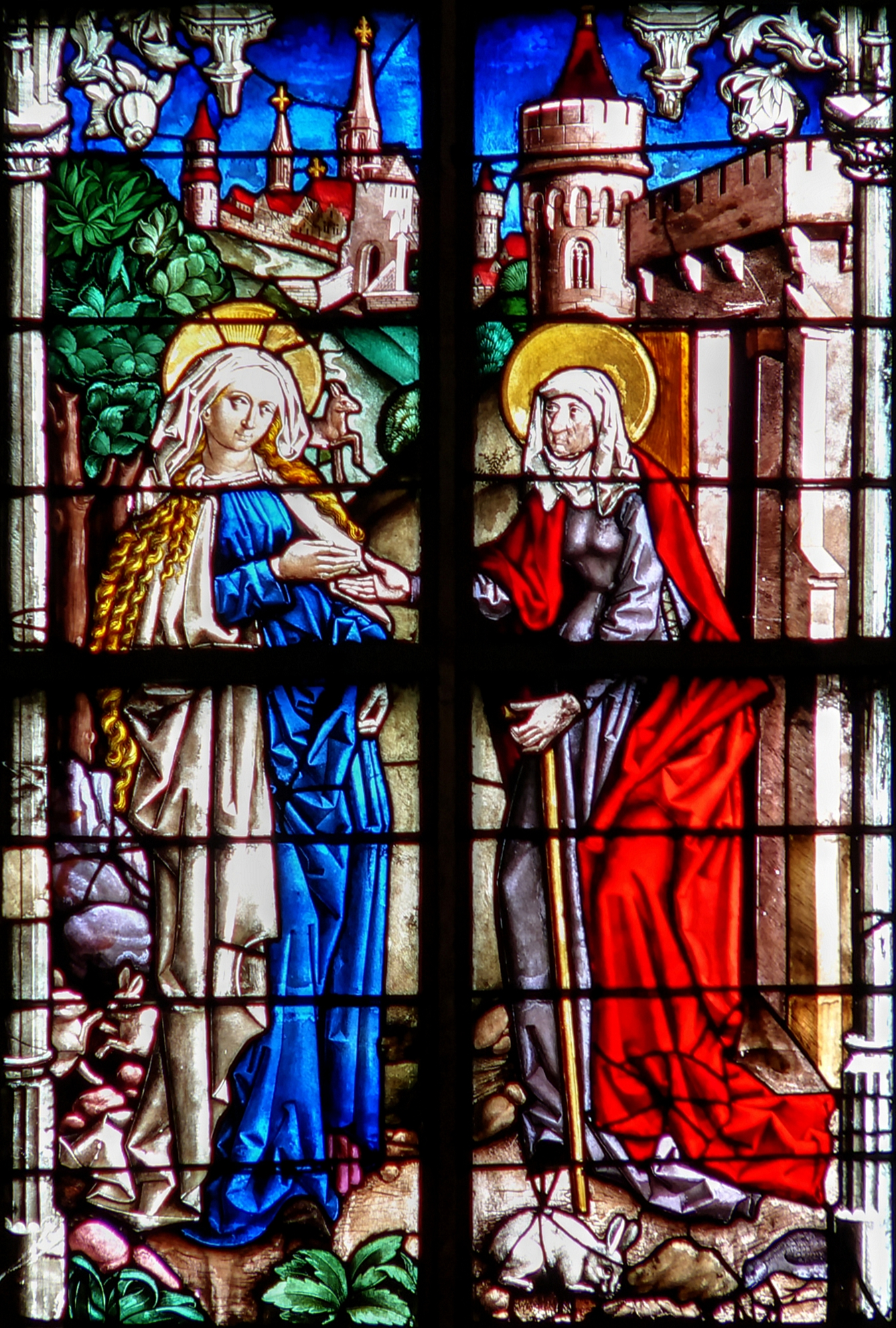 The Lutheran cathedral "Ulm Münster" of Ulm/Germany, Detail of the coloured window "Kramerfenster", Visitation (scene of the bible)